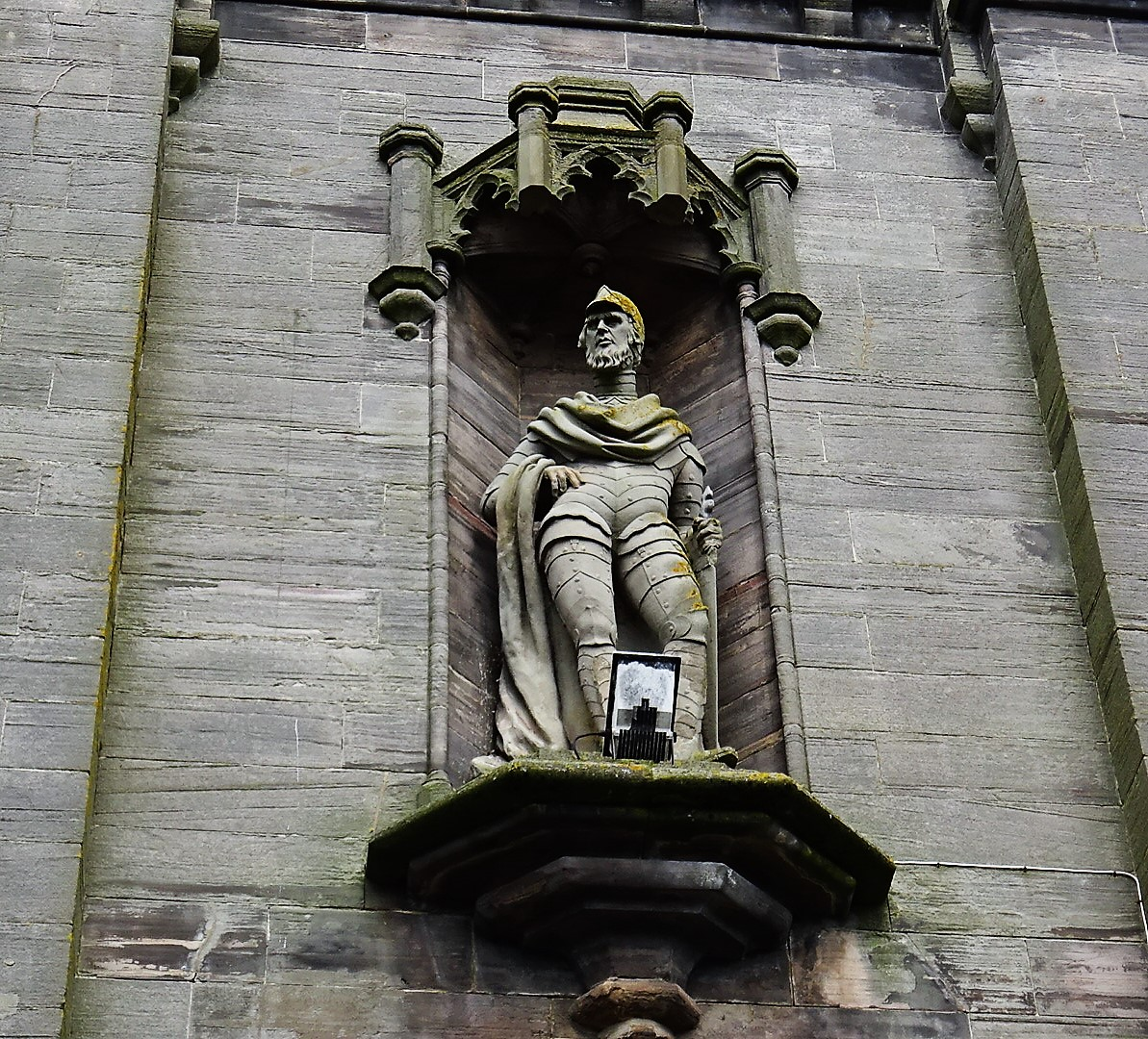 The Wallace Tower statue, Ayr, South Ayrshire.